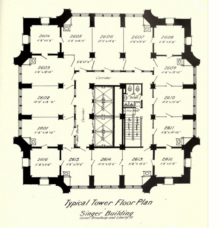 Typical tower floor plan (above 12th floor), Singer Building, 149 Broadway at Liberty Street, New York City. Architect: Ernest Flagg. Opened 1908, demolished 1968.